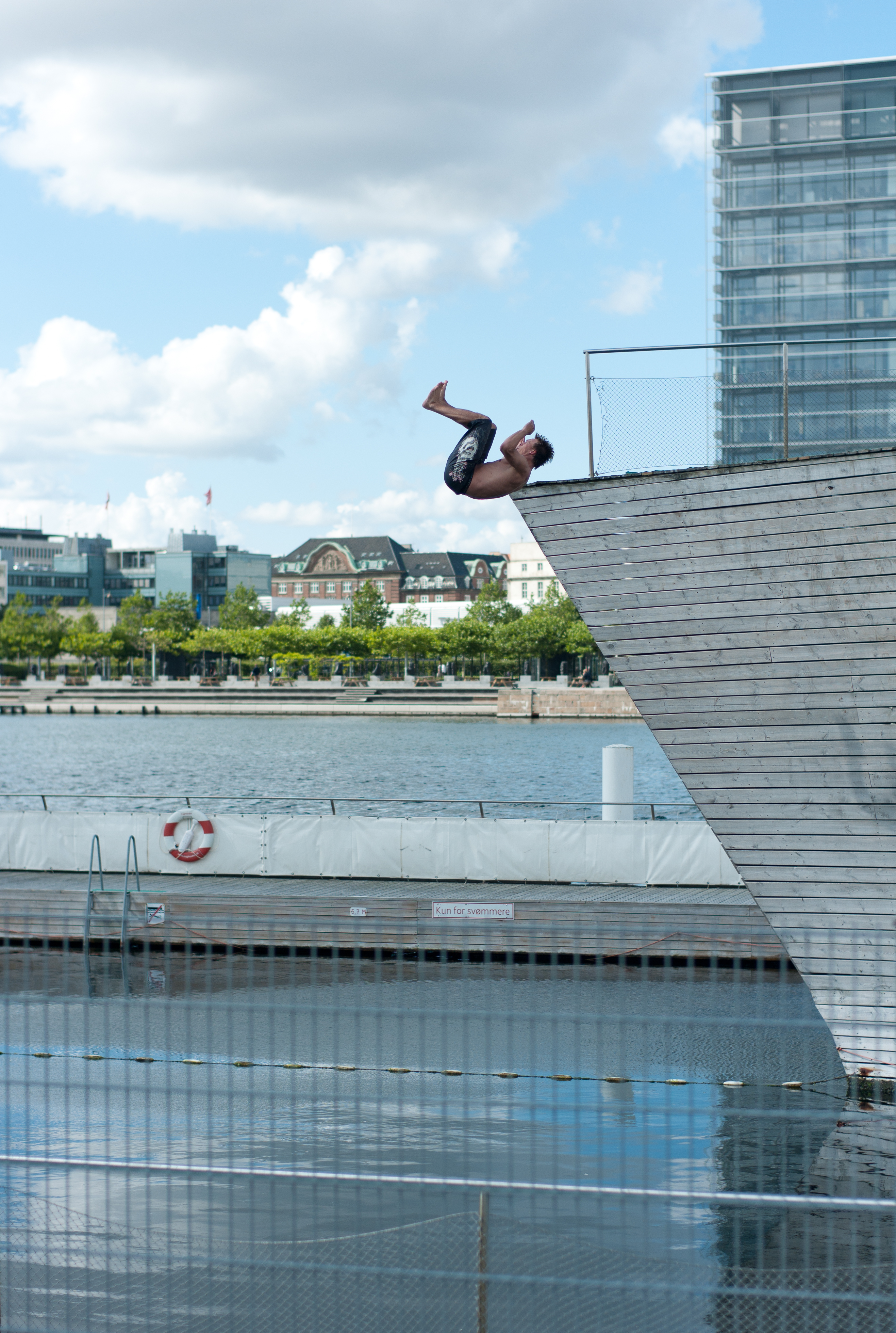 Islands Brygge Harbour Bath with Polititorvet at Kalvebod Brygge on the other side of the harbour as a backdrop in Copenhagen, Denmark